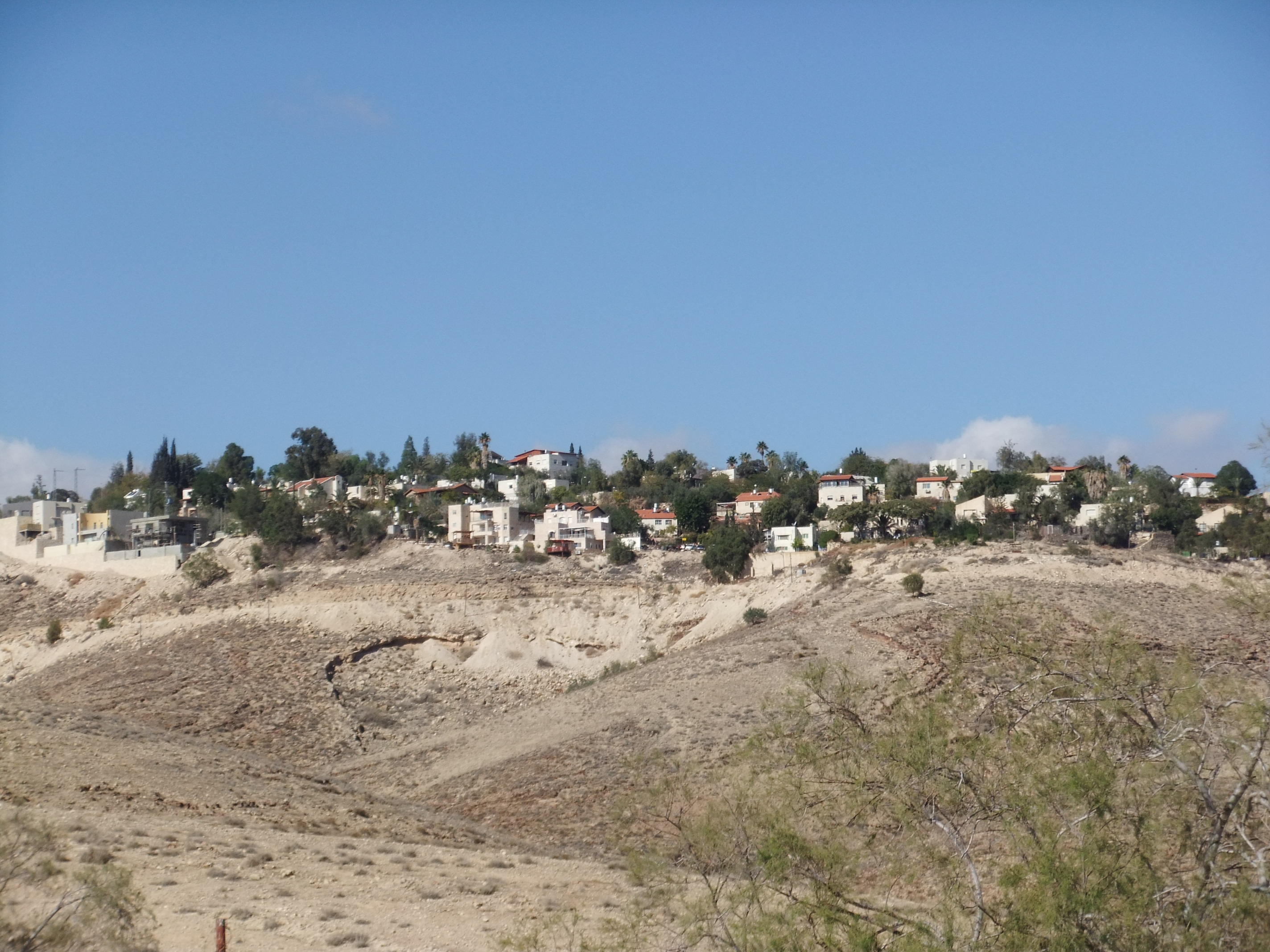 Kfar Adumim